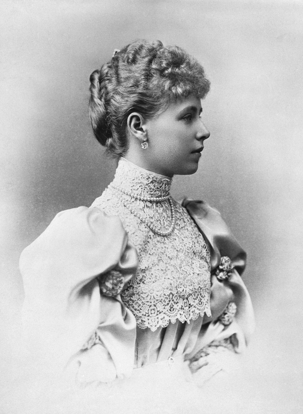 Head and shoulders of Princess Marie, body 3/4 right, head almost profile right. Dress with high collar, pearls. Vignette.